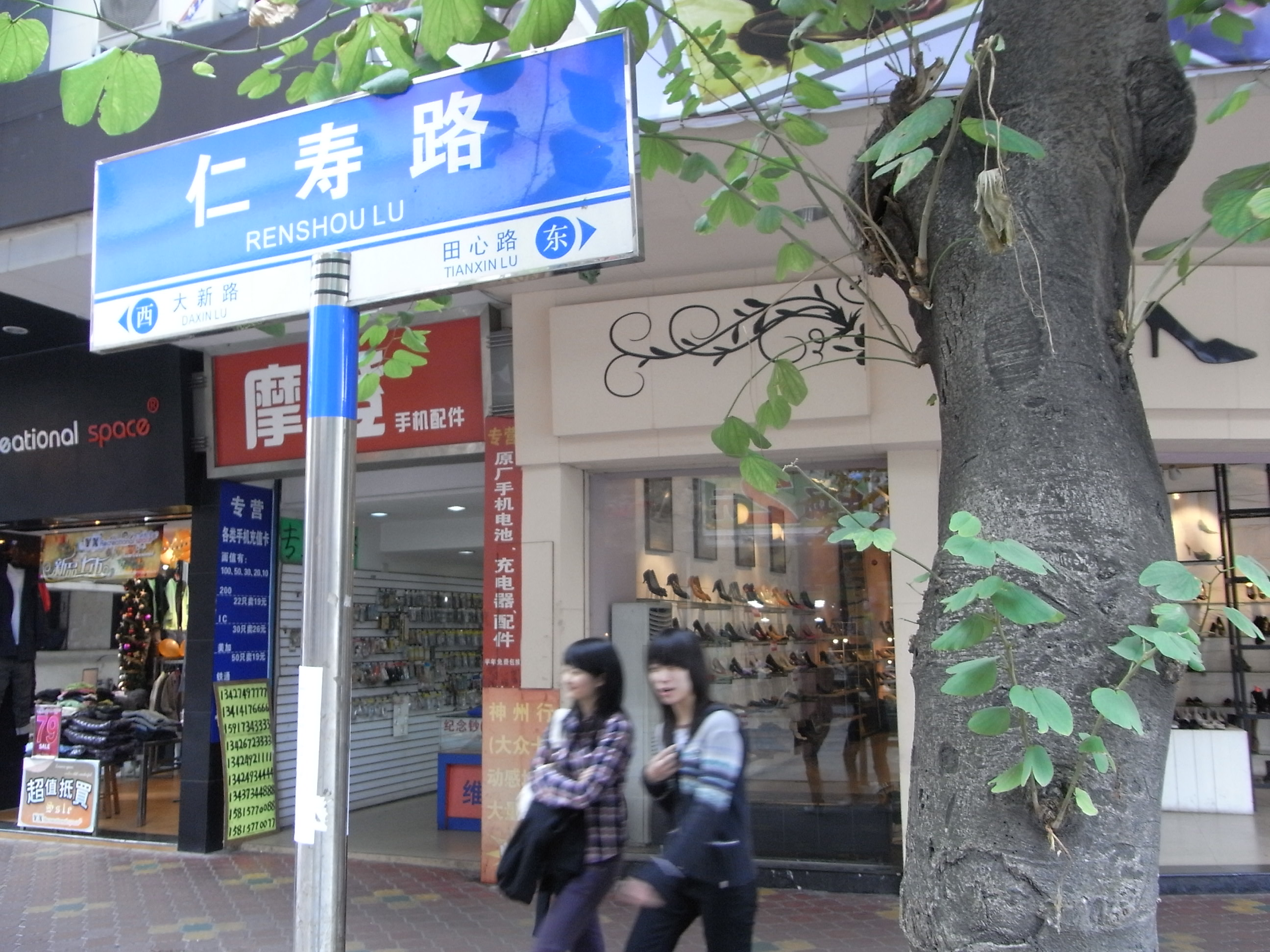 新會會城 仁壽路